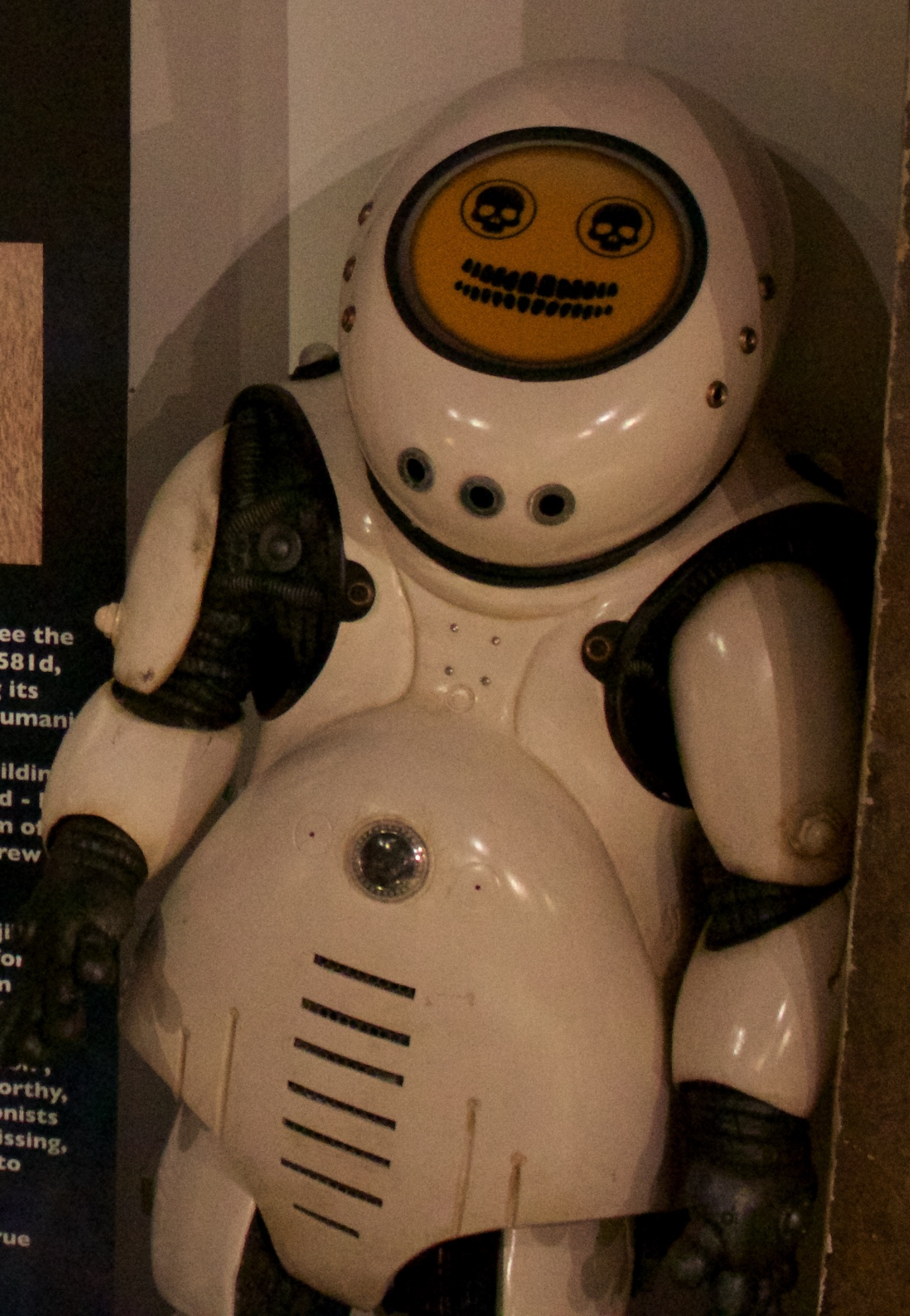 IMG_8616 Doctor Who Experience series 10